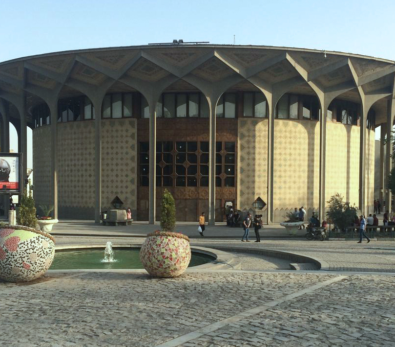 City Theater, Tehran, Iran